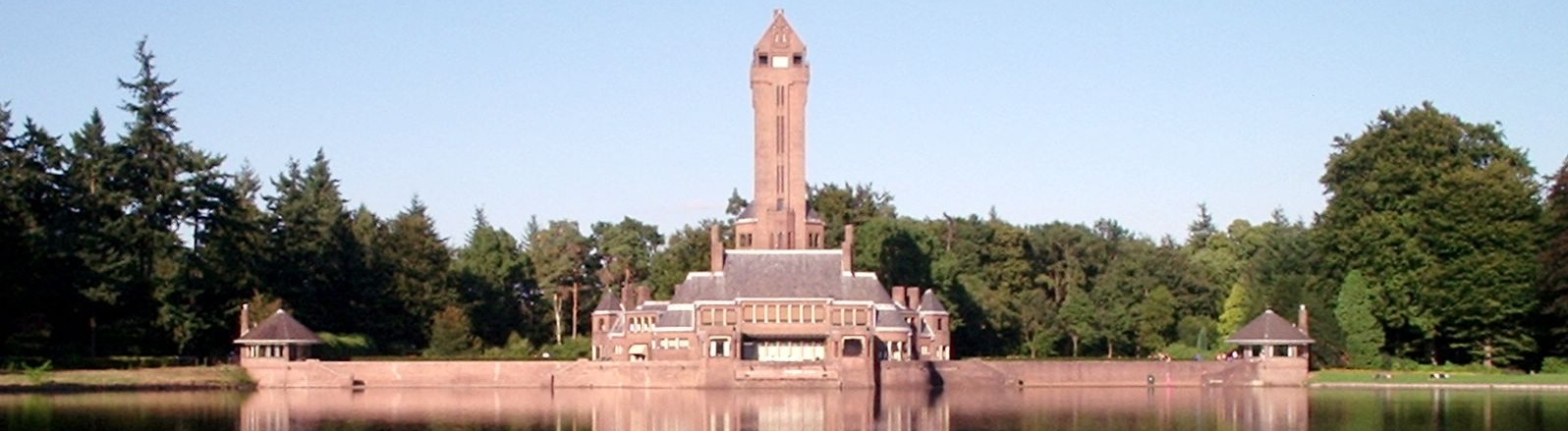 St. Hubertusslot (St. Hubertus Hunting Lodge) at National Park De Hoge Veluwe, The Netherlands. Designed by H.P. Berlage in 1914. Photo taken at a trip to De Hoge Veluwe, September 2003. © 2003 User:China_Crisis